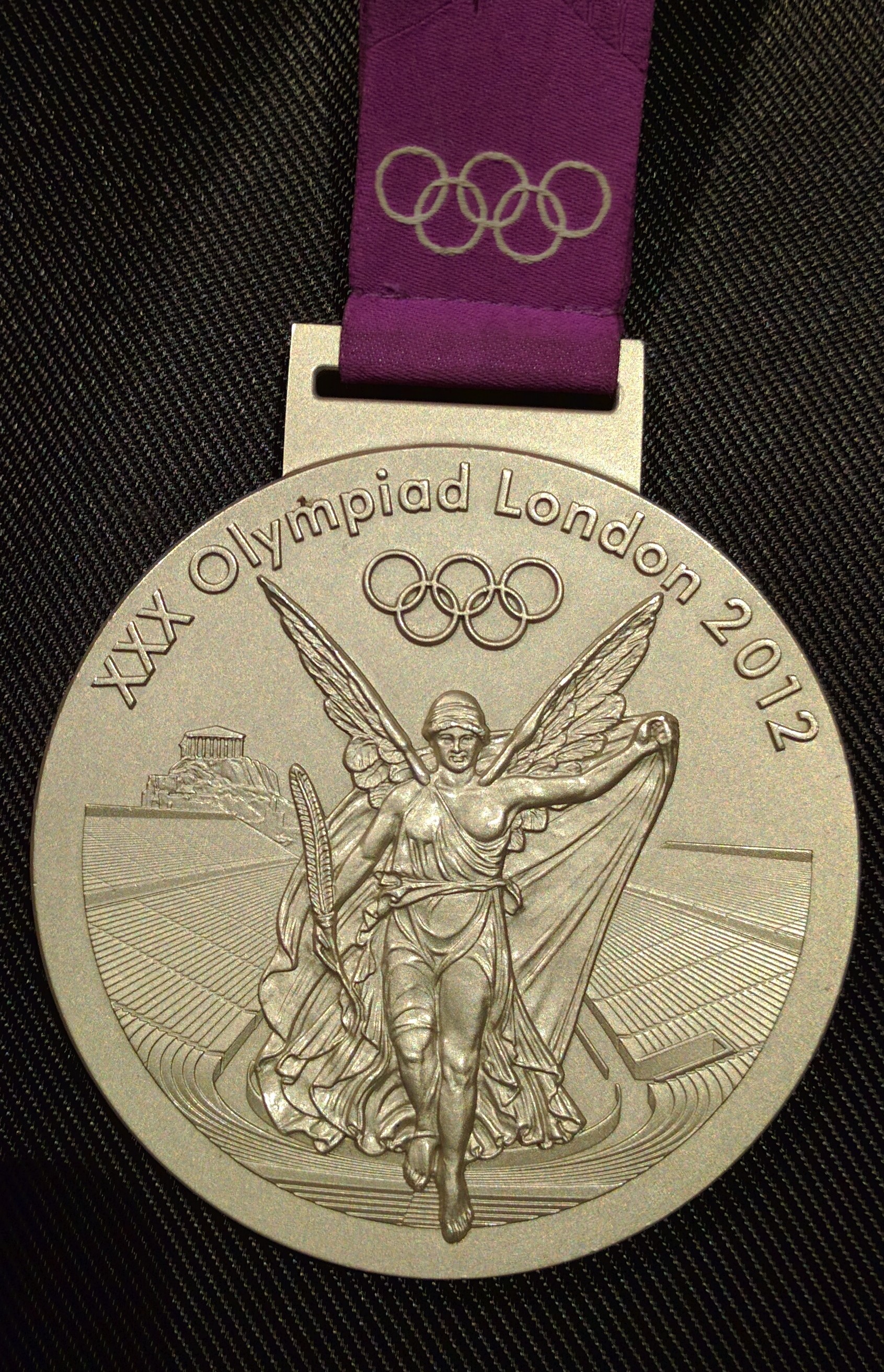 Front of the Silver Medal won by the USA in the London 2012 Summer Olympics